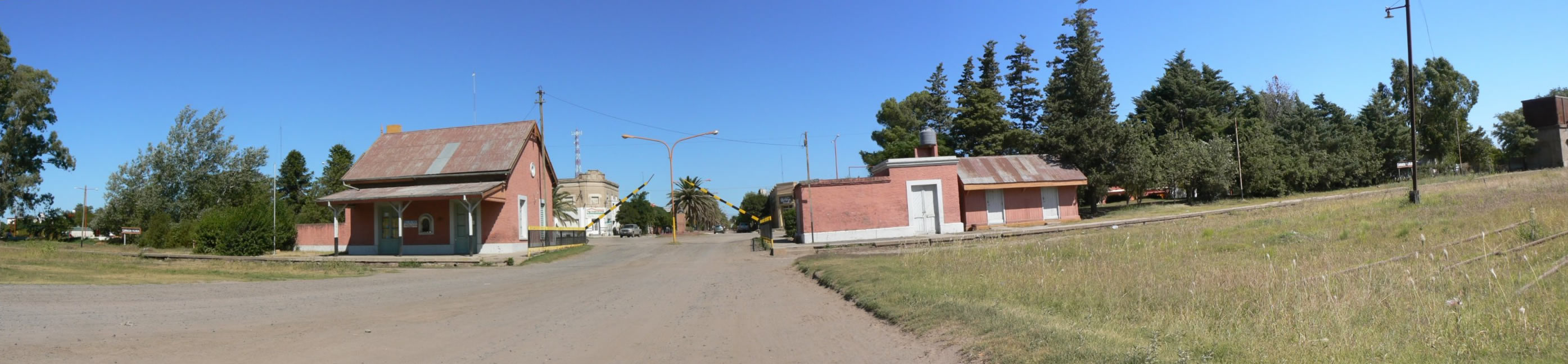 Panoramic view of the Cañada Verde station of Villa Huidobro, Córdoba Province (Argentina). The station building (at the left of the road) and the level crossing barriers are visible on the image.